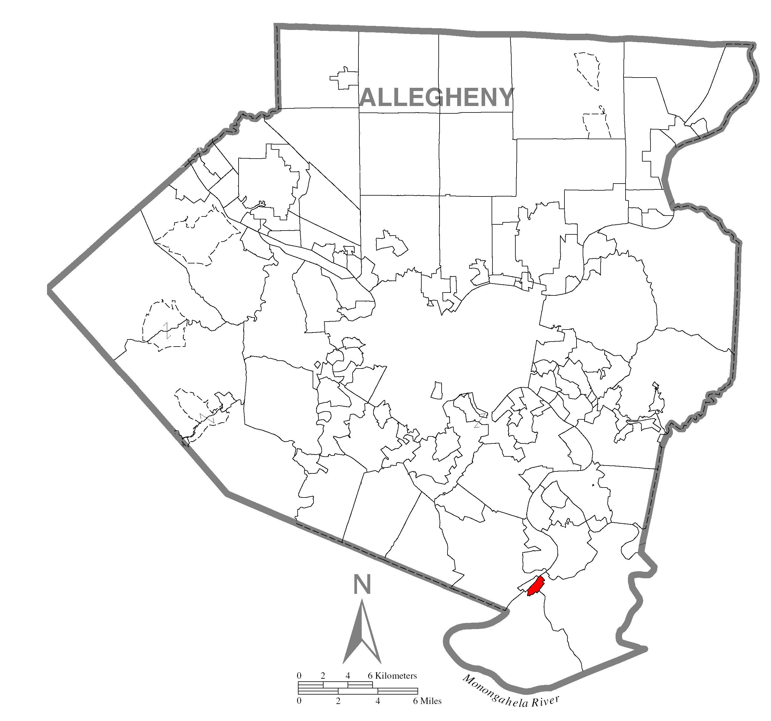 A map of Allegheny County showing Elizabeth, Pennsylvania (alternate) highlighted on the map.